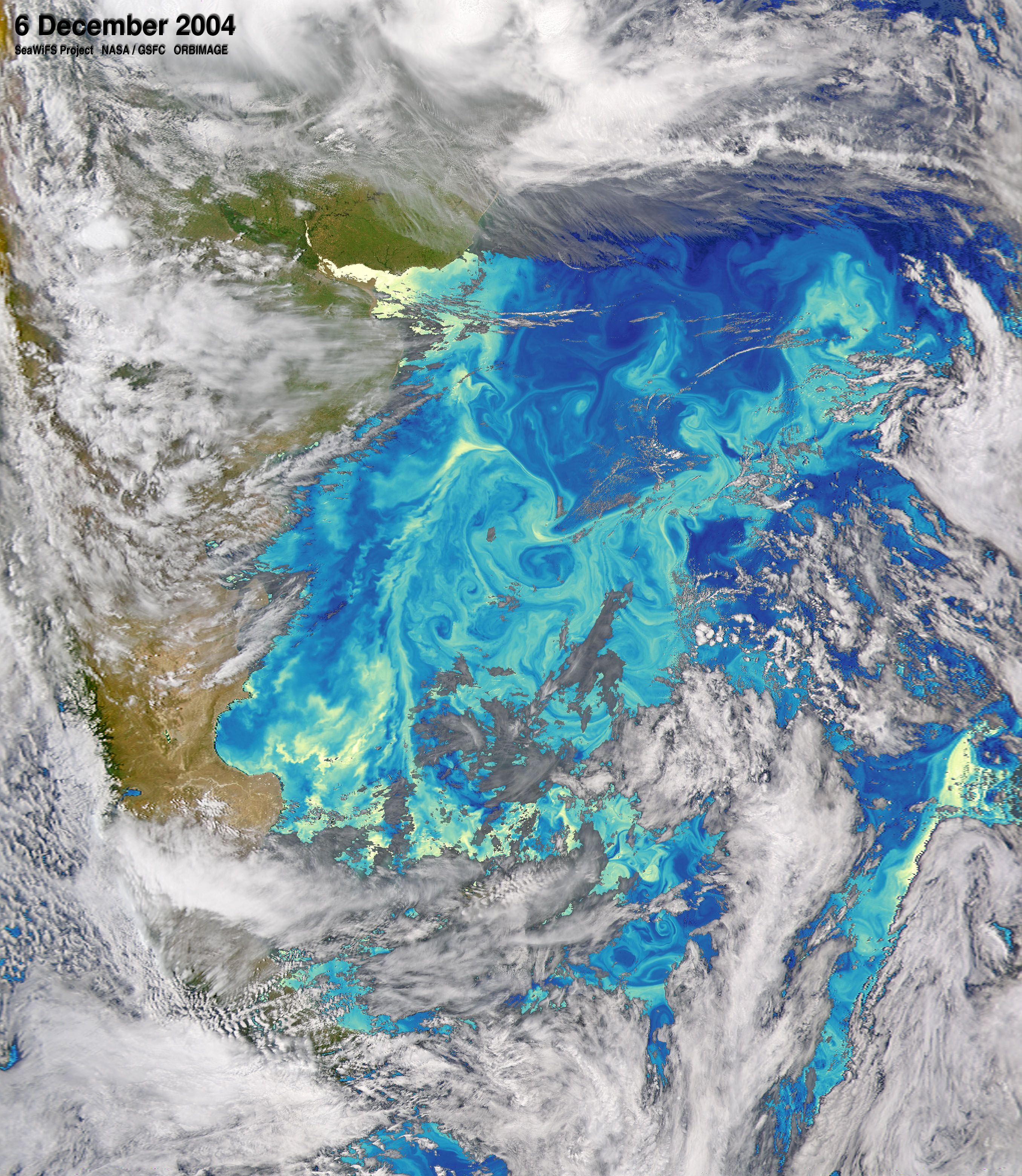 The Malvinas/Falkland Current, an offshoot from the Antarctic Circumpolar Current, transports phytoplankton into the South Atlantic Ocean along the South American coast up to the Brazil–Malvinas Confluence. Based on the Sea-viewing Wide Field-of-view Sensor (SeaWiFS) project at the NASA/Goddard Space Flight Center, this image shows chlorophyll concentrations in shades of blue (lower concentrations) to yellow (higher).